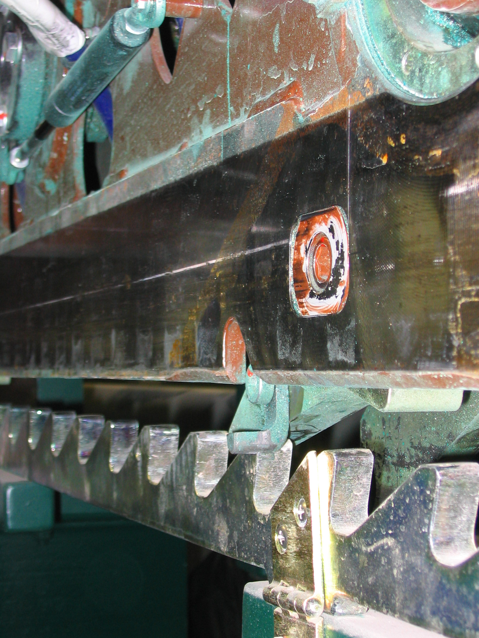 Anti Rollback Device on Gerstlauer Rollercoaster Car